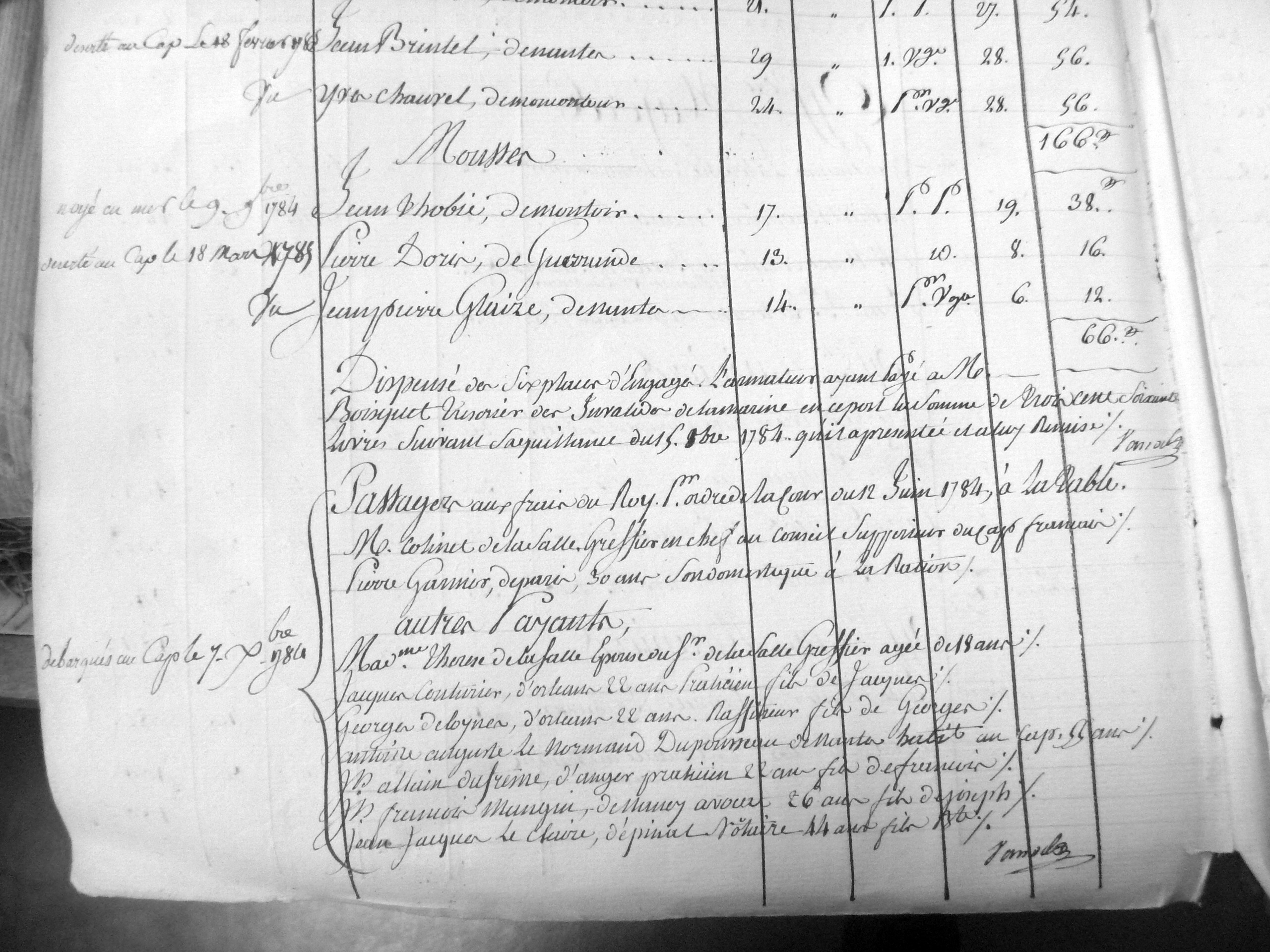 Passenger list